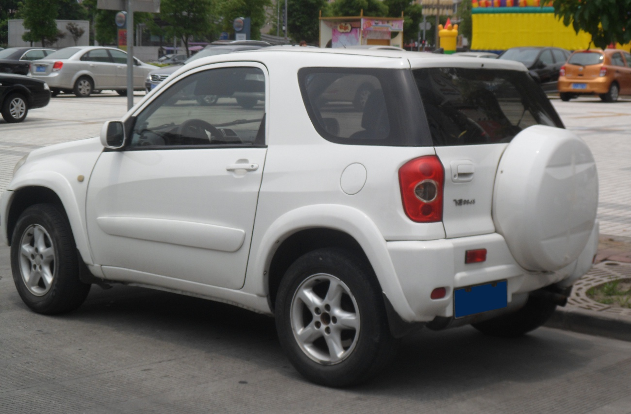 Jonway UFO photographed in Shanghai, China.